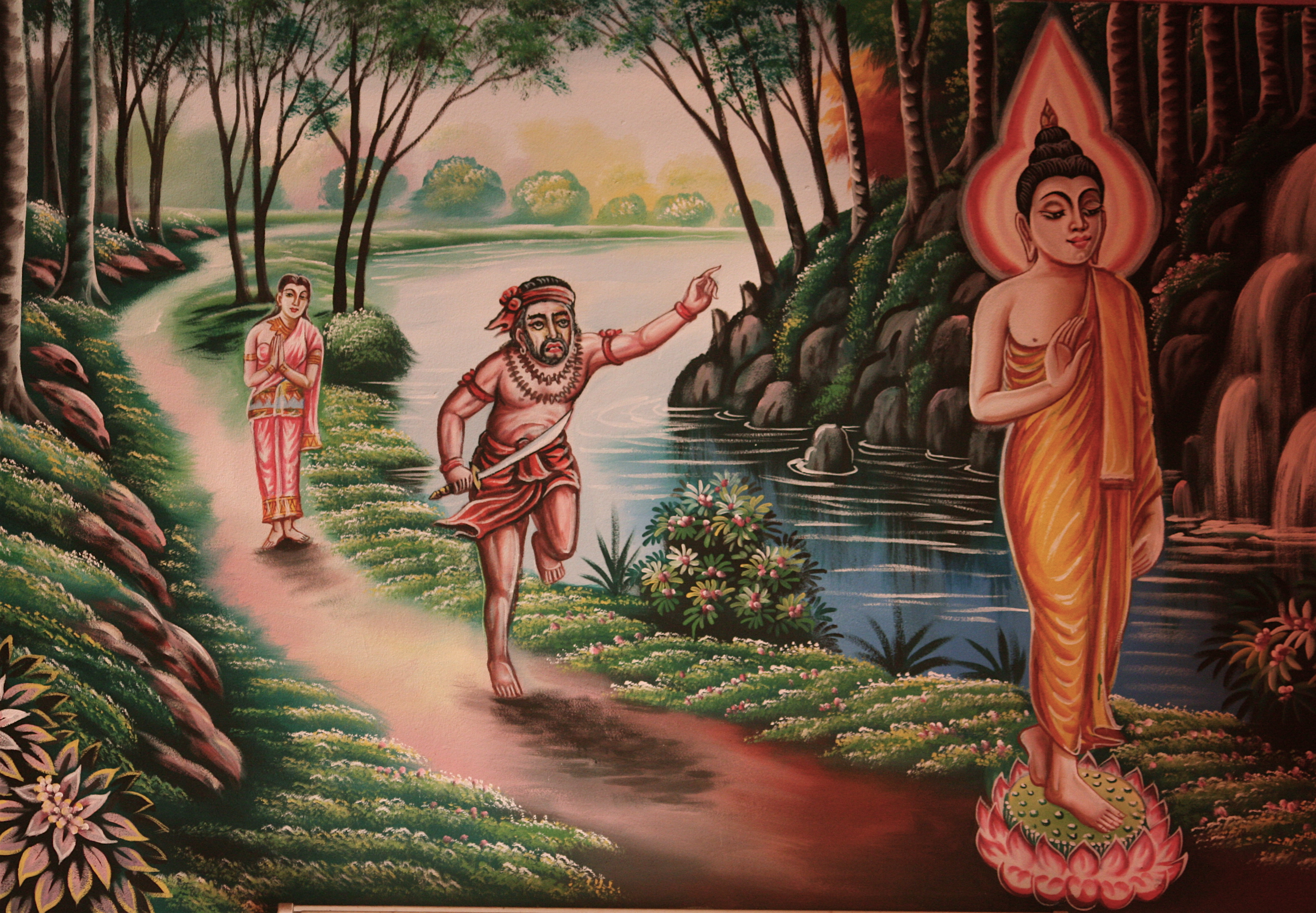 The Buddha is chased by the brigand Angulimala, but uses his psychic powers and wisdom to teach him. Story found in numerous ancient Buddhist texts.